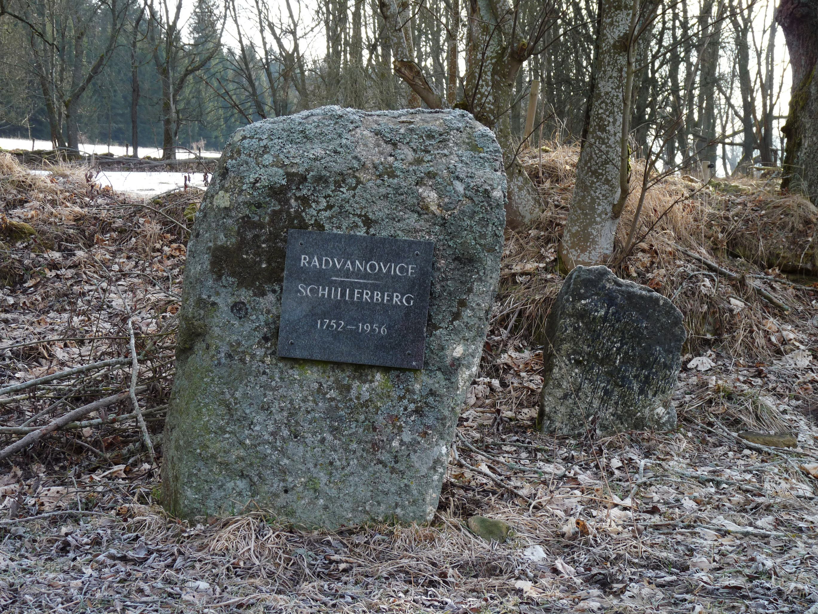 Memorial of the abandoned village of Radvanovice, north-east of the municipality of Stožec, Prachatice District, South Bohemian Region, Czech Republic.